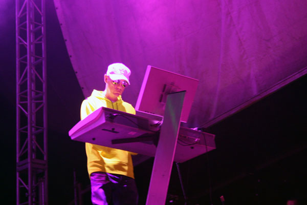 Chris Lowe from Pet Shop Boys.